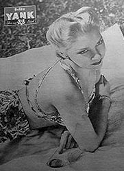 Pin-up photo of Belita for the Sep. 22, 1944 issue of Yank, the Army Weekly, a weekly U.S. Army magazine fully staffed by enlisted men.